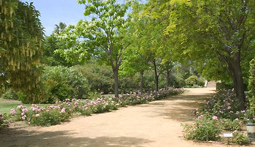 Walk of roses in the Botanical Garden The Arboreto del Carambolo.